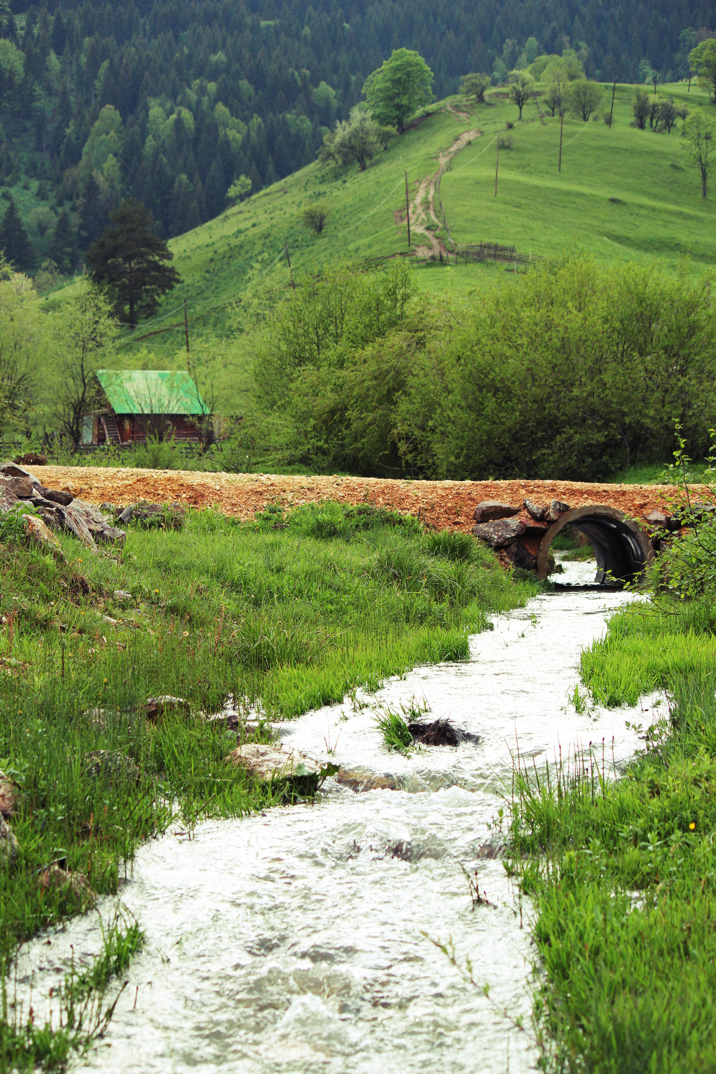 Rivers of Rugova